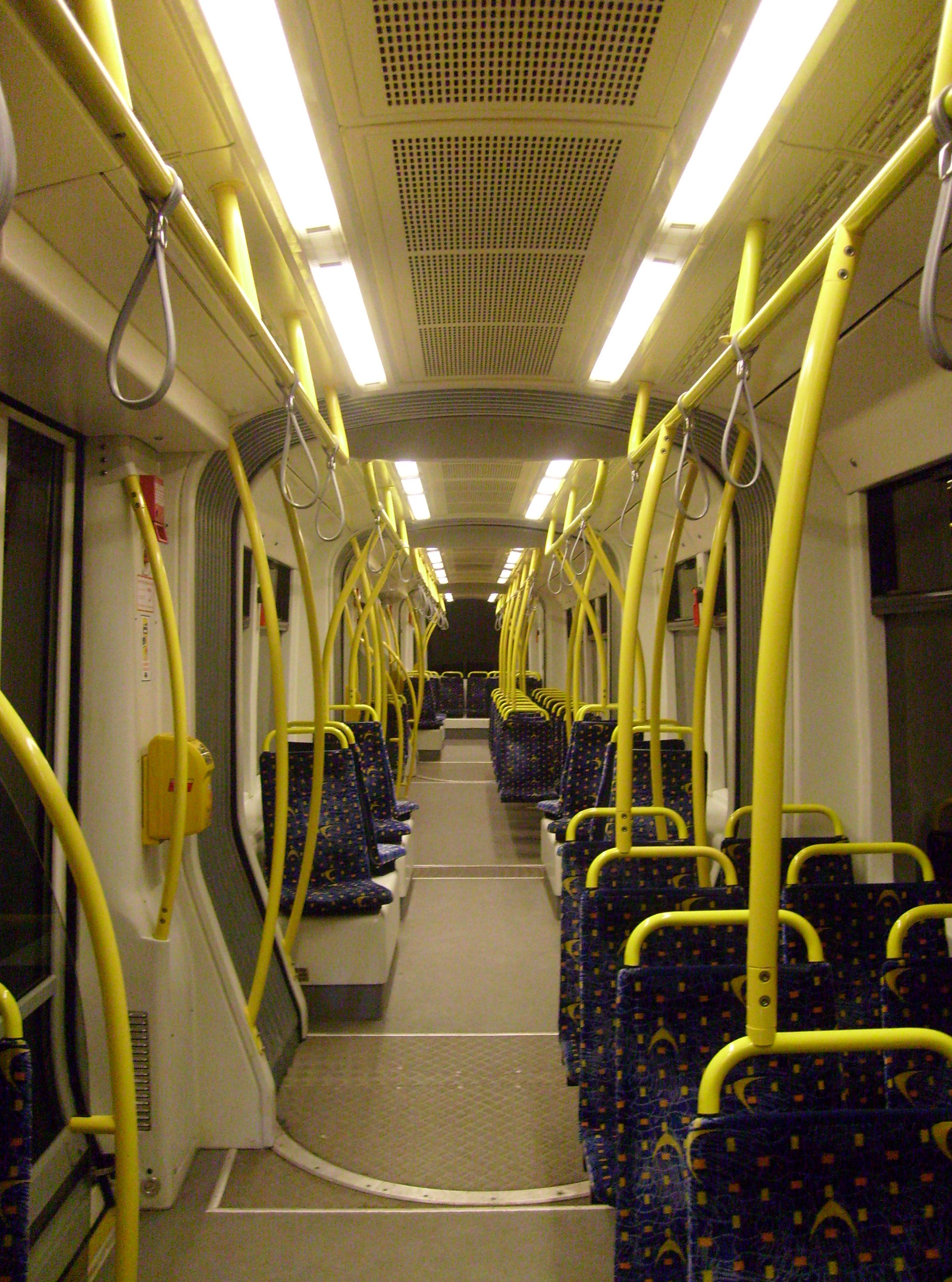 PESA 120N tram interior in Warsaw, Poland.